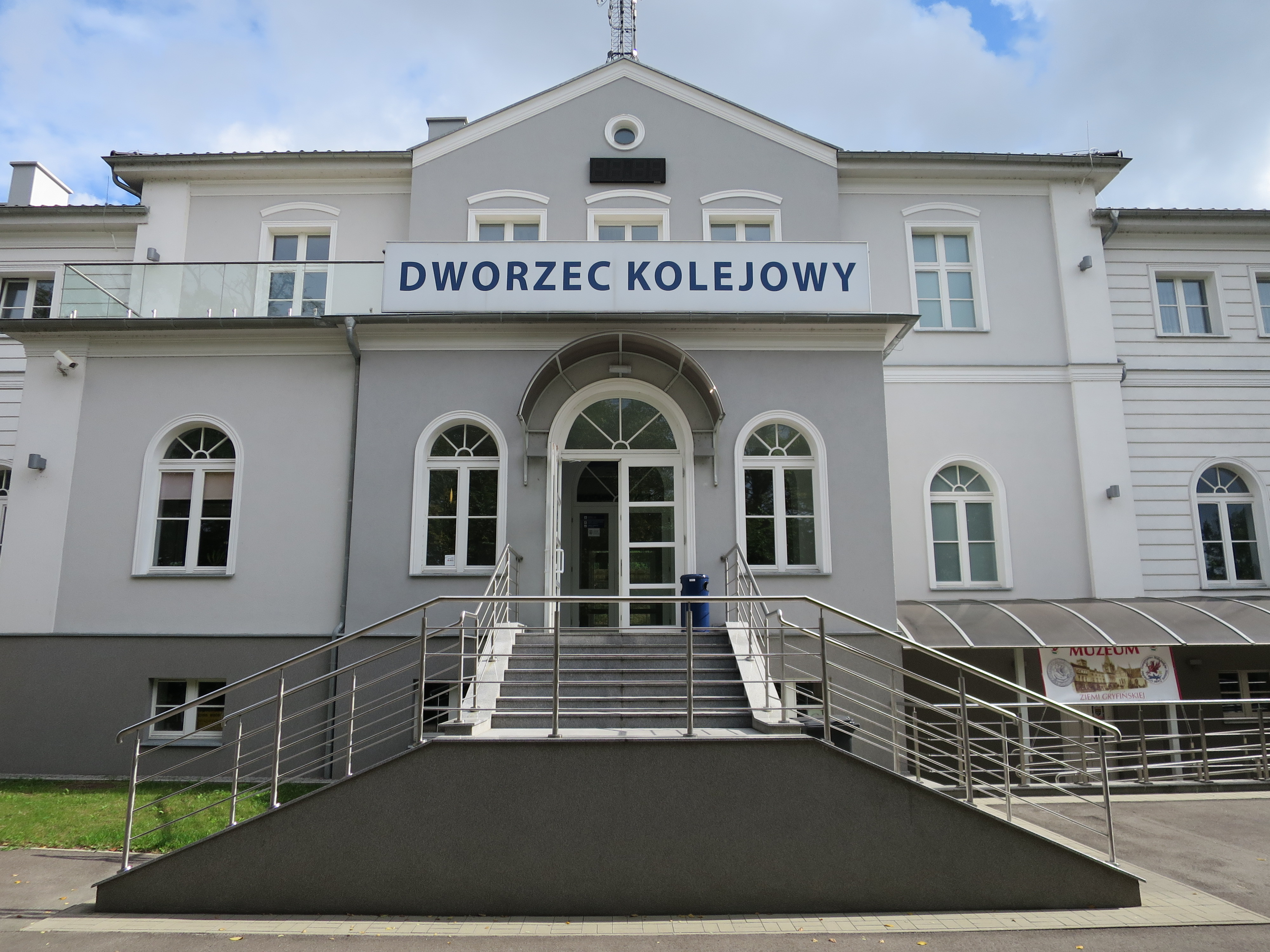 Gryfino This photo was taken during Railway Wikiexpedition 2015 set up by Wikimedia Polska Association in cooperation with Fundacja Grupy PKP.You can see all photographs in category Wikiekspedycja kolejowa 2015.